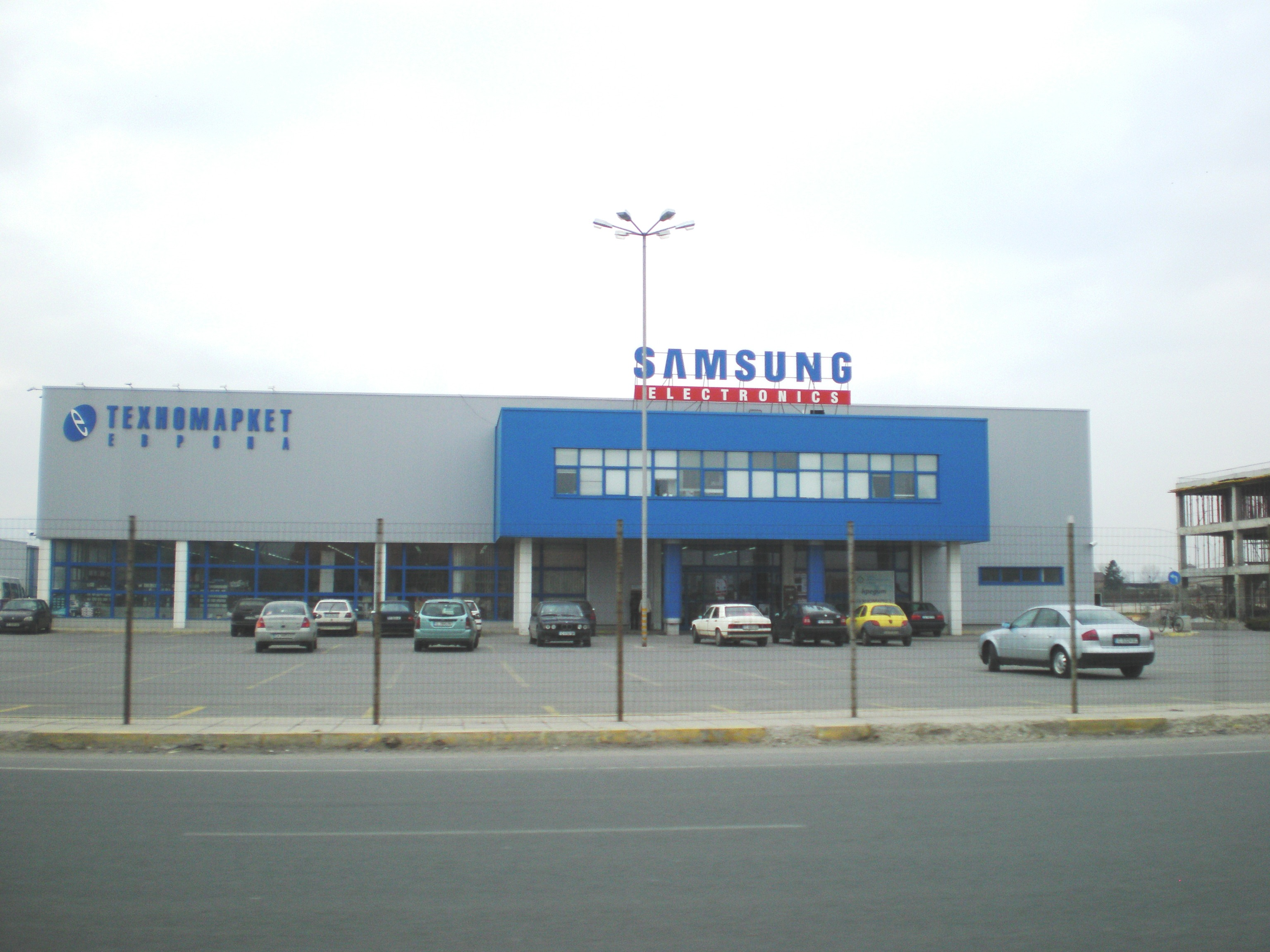 Technomarket, Europe blvd. - Sofia